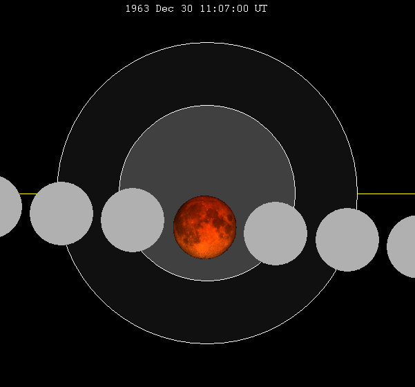 December 1963 lunar eclipse chart of moon's path through the earth's shadow